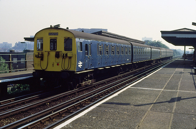 Class 501 at Stonebridge Park